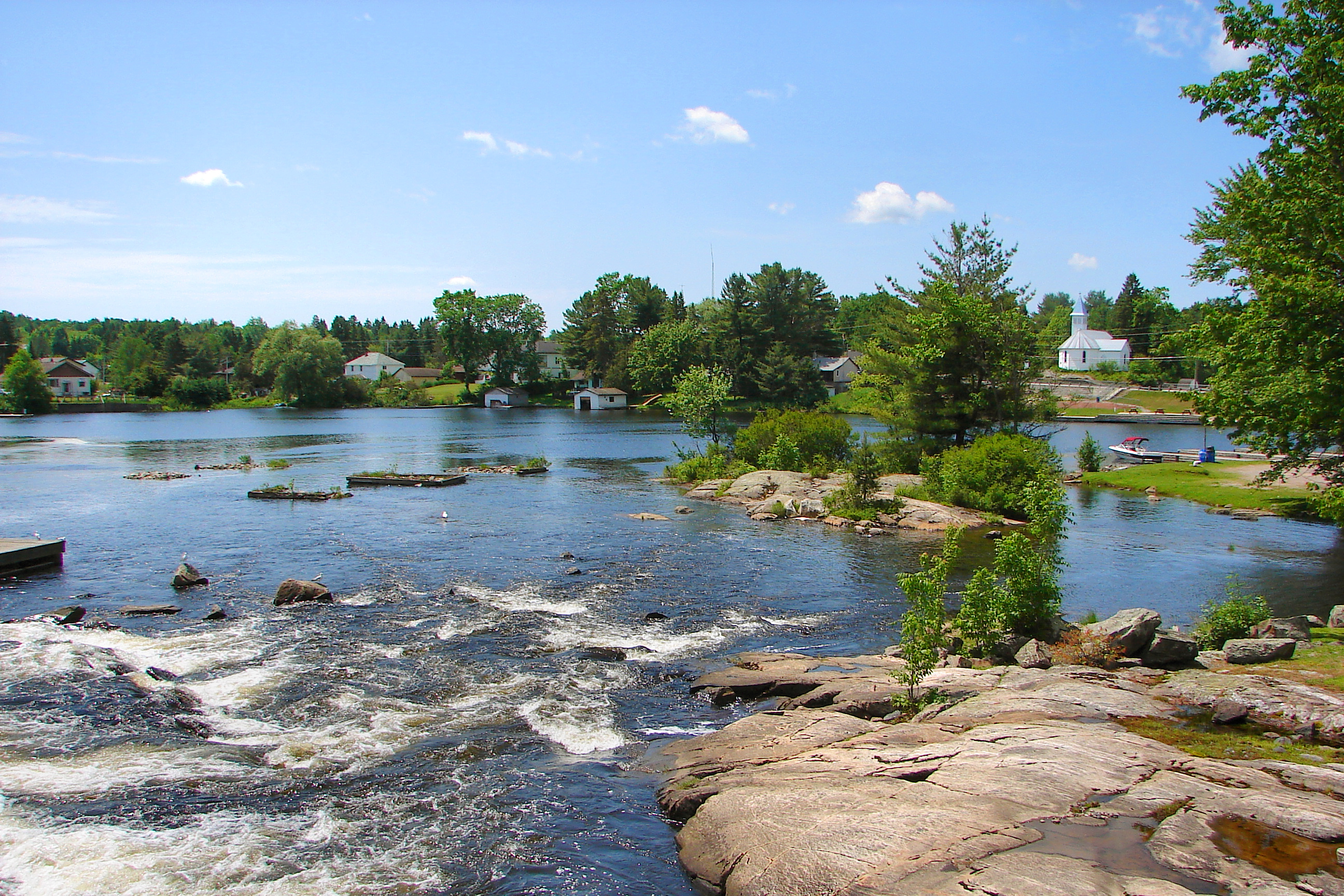 View of Magnetawan, Ontario, Canada